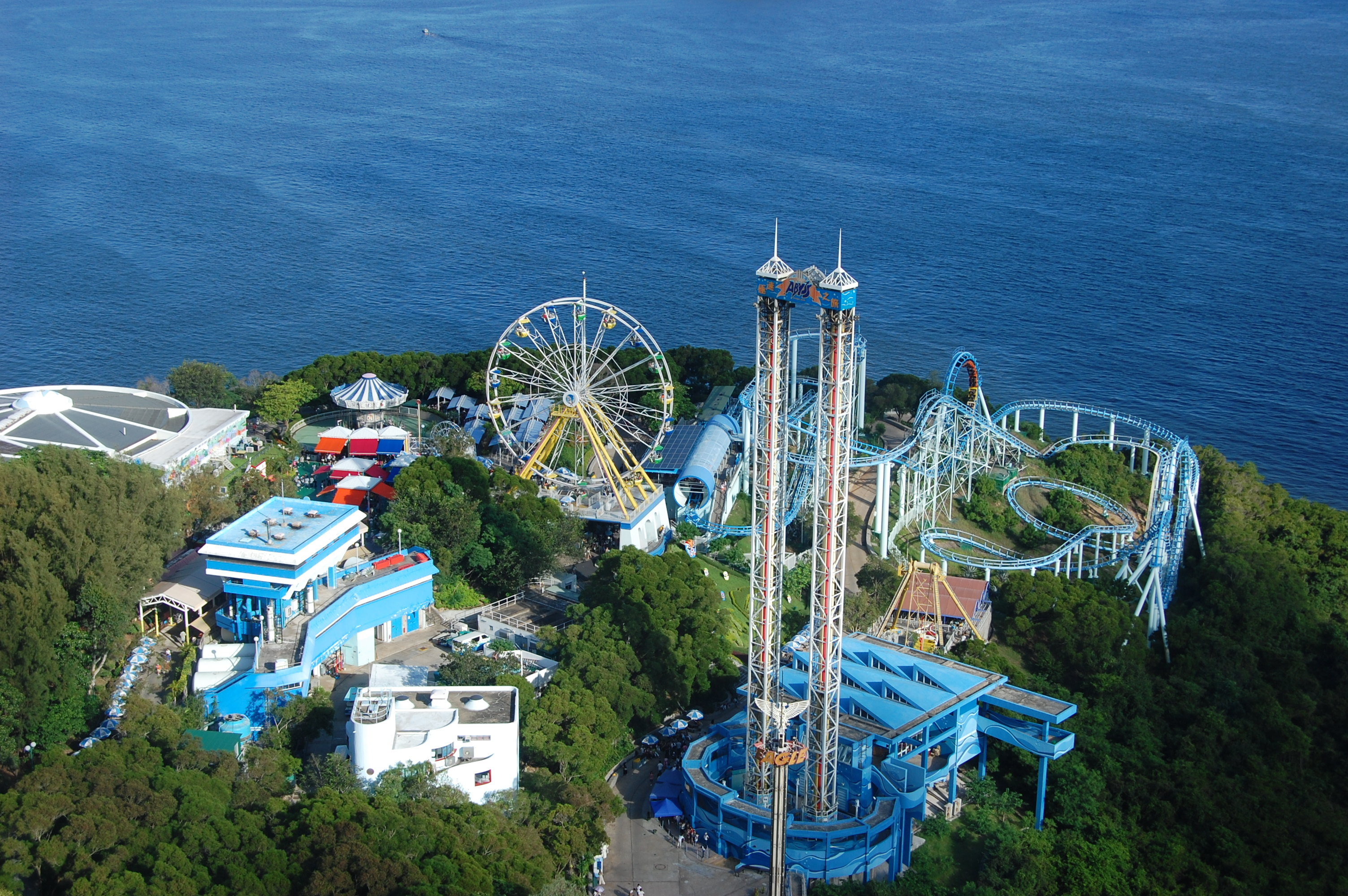 The rides found in Ocean Park. Roller coaster ...etc.